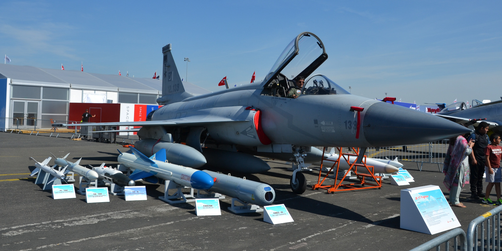 Paris Air Show 2019 - Le Bourget